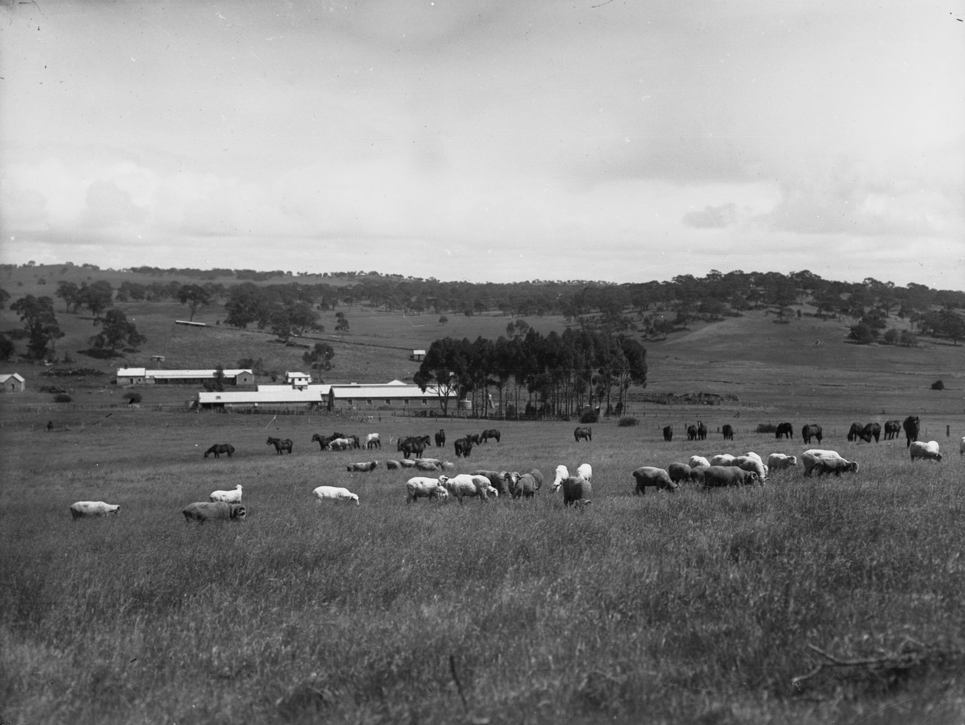 Index 717A says: Sheep Station at Bungaree. (G Brooks) - Title amended to reflect G Brooks' notes - Farm Buildings in distance